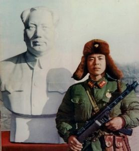 Lei feng was standing in front of the statue of Mao Zedong.Lei Feng (18 December 1940 – 15 August 1962) was a soldier of the People's Liberation Army of China.